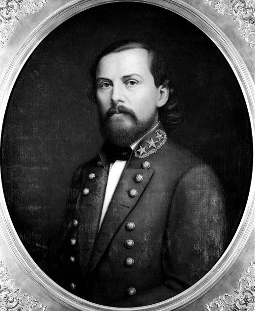 Oil painting of Thomas C. Hindman by Aurelius O. Revenaugh, 1906. Tennessee State Museum, Nashville, Tennessee, Record No: 2.8